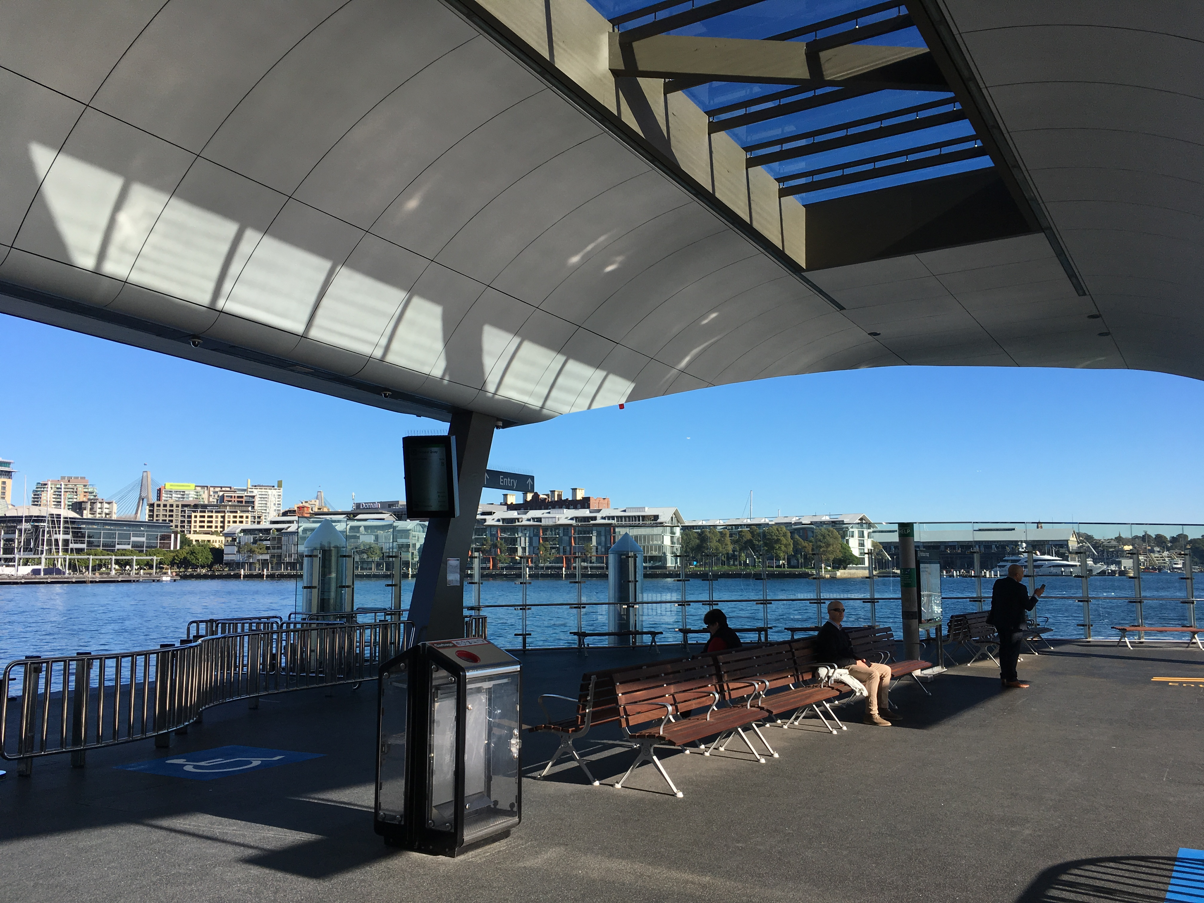 Captured on the morning of opening day on 26 June 2017, this is a view of the resting area for commuters at wharf 1 at the Barangaroo ferry wharf. By far the largest space open space for commuters on any wharf on Sydney Harbour, it is designed to accommodate large amounts of commuters on both the F3 Parramatta River and F4 Cross Harbour services, especially during peak hour.